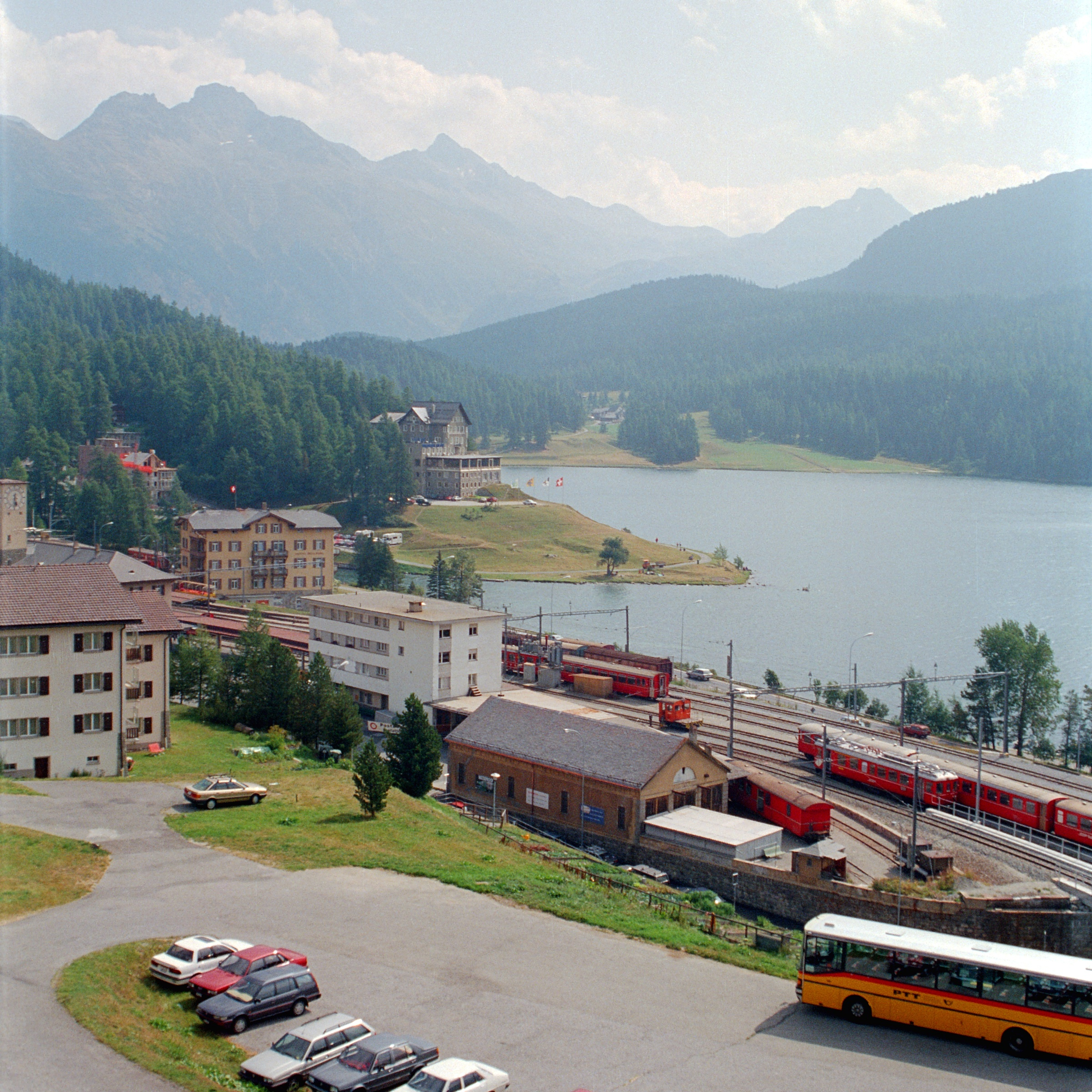 St. Moritz railway station on the shore of lake St. Moritz. (Scan from film)